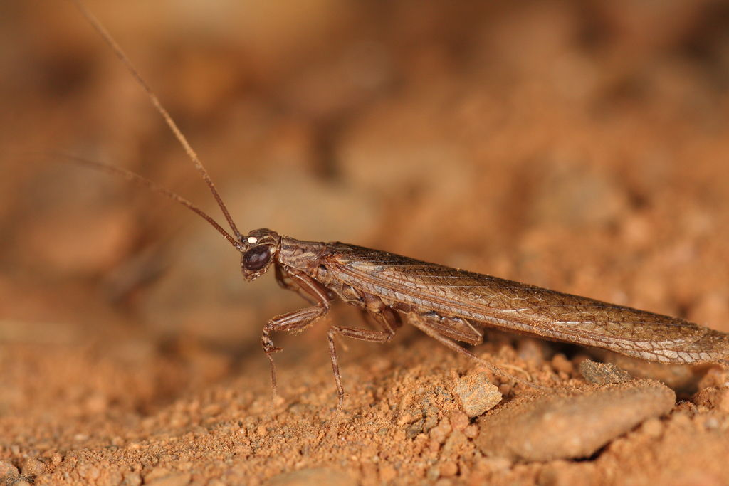 Perlamantis allibertii from Algoz (Faro) – credit Eduardo Marabuto.